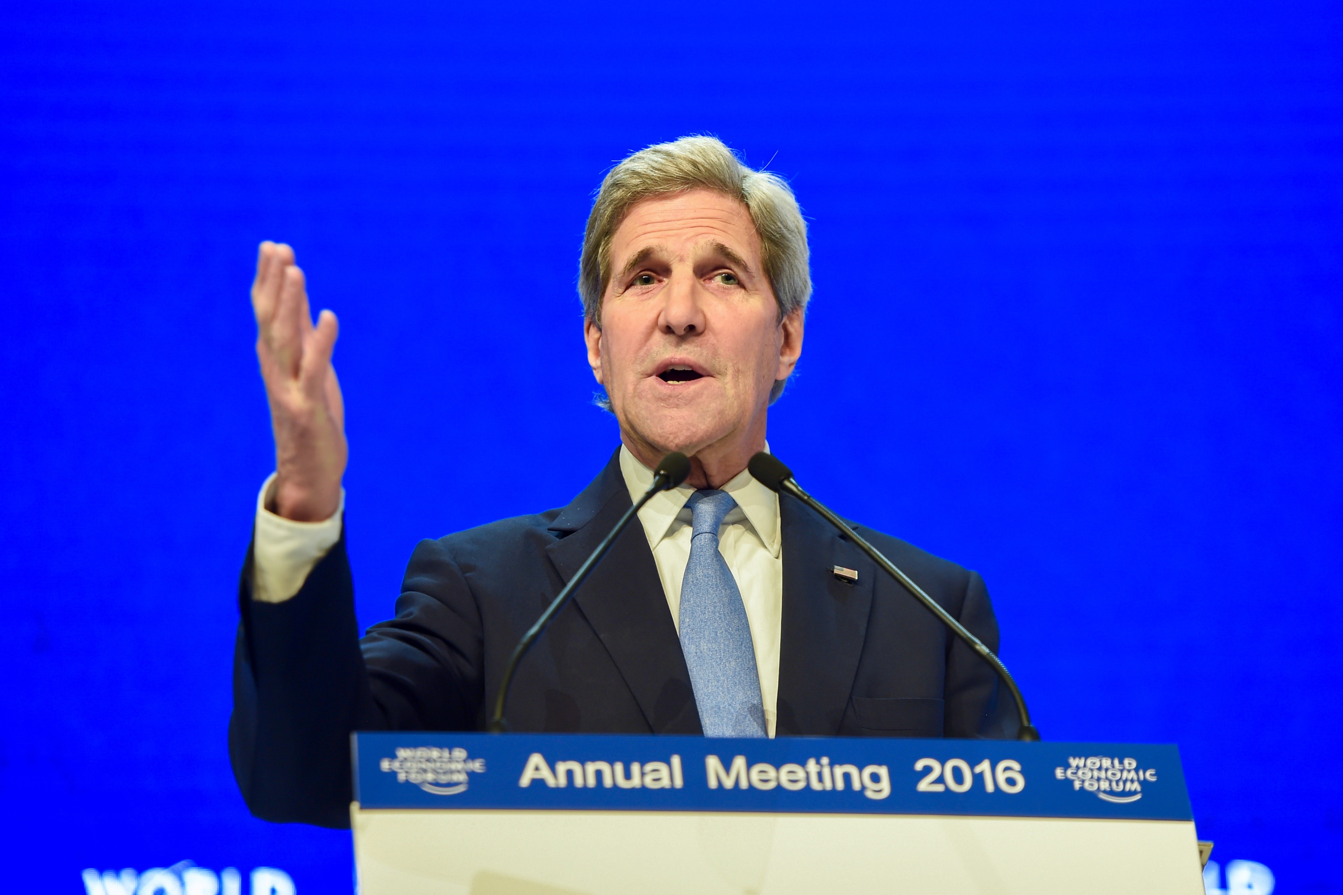 U.S. Secretary of State John Kerry delivers a speech on January 22, 2016, to attendees at the World Economic Forum in Davos, Switzerland. [State Department Photo/Public Domain]